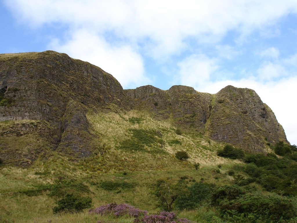 Cavehill, Belfast From: Taken on August 17, 2006. Size 1024x768 (Original Size 1600x1200) Uploaded on August 17, 2006 by donnamarijne